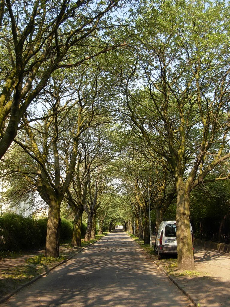 46 Sorbus intermedia in Bydgoszcz